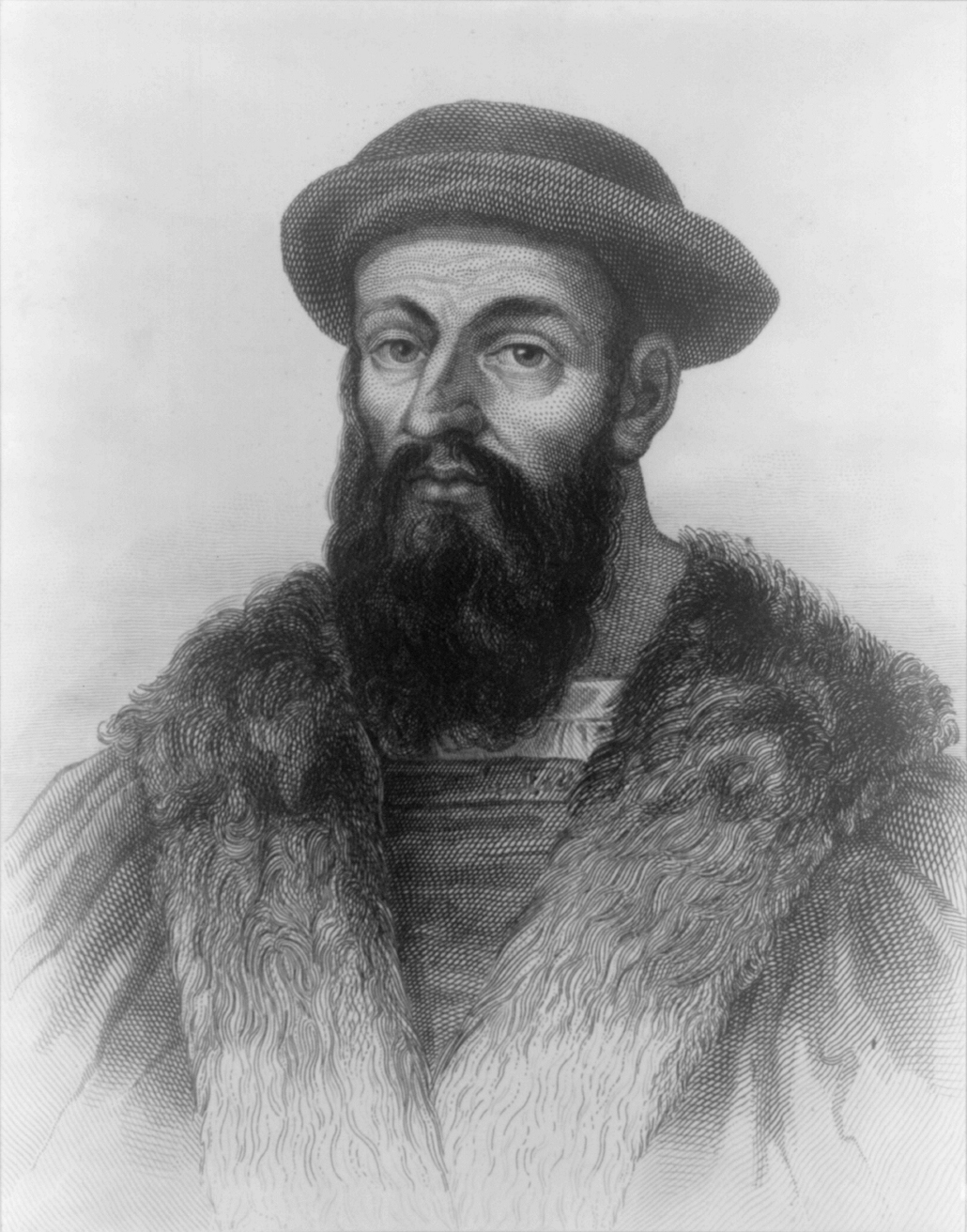 Ferdinand Magellan, Portuguese maritime explorer.